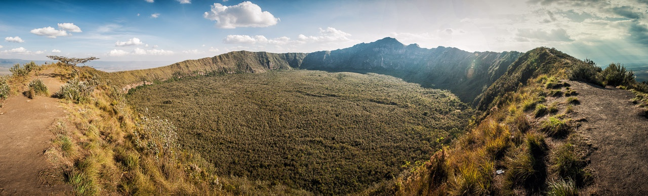 Mount Longonot